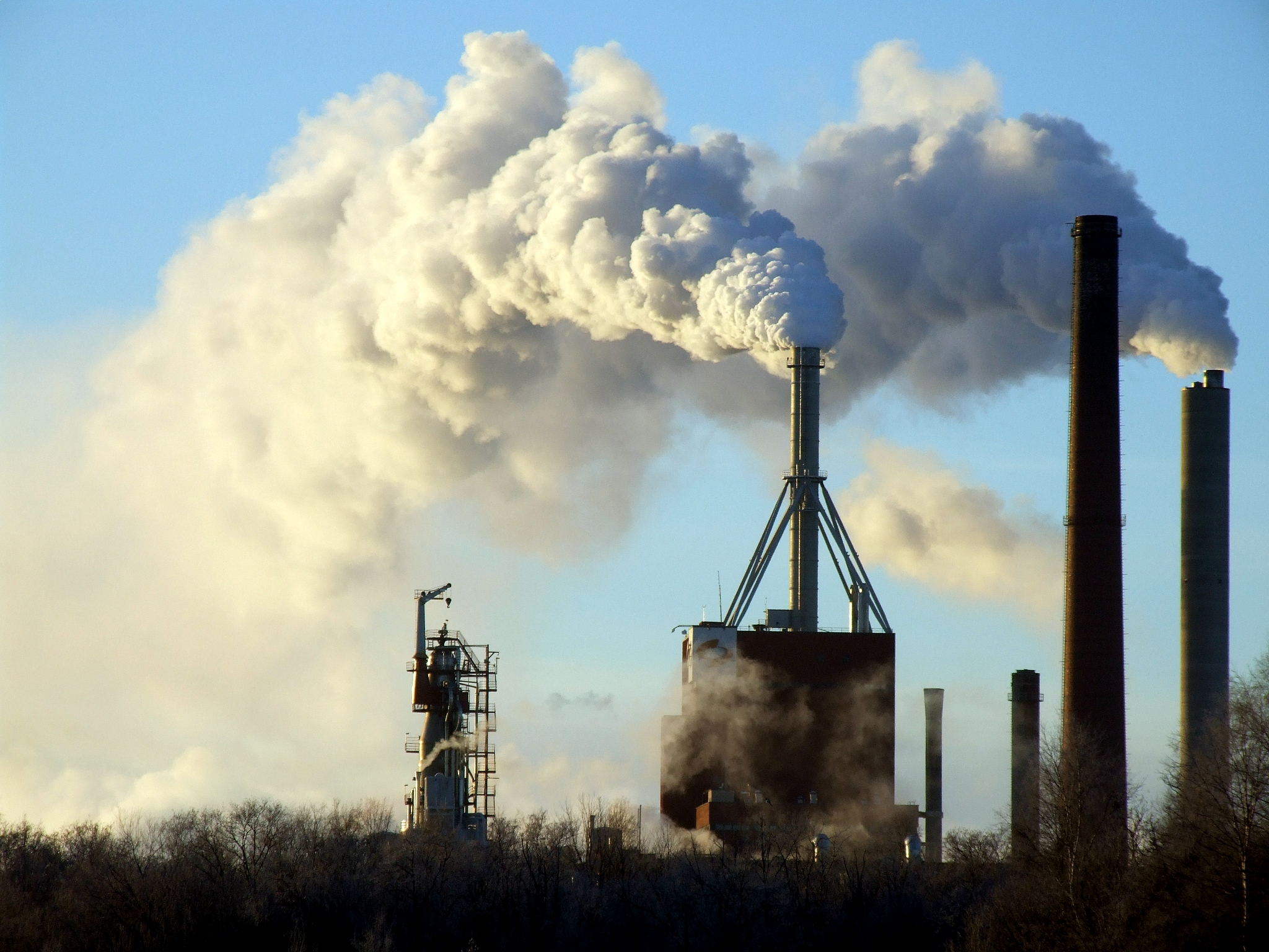 Stora Enso Pulp and Paper Mill in Nuottasaari, Oulu, Finland.